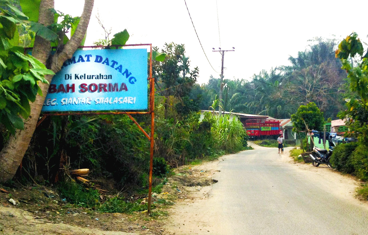 Welcome Gate To Bah Sorma, Siantar Sitalasari, Pematangsiantar